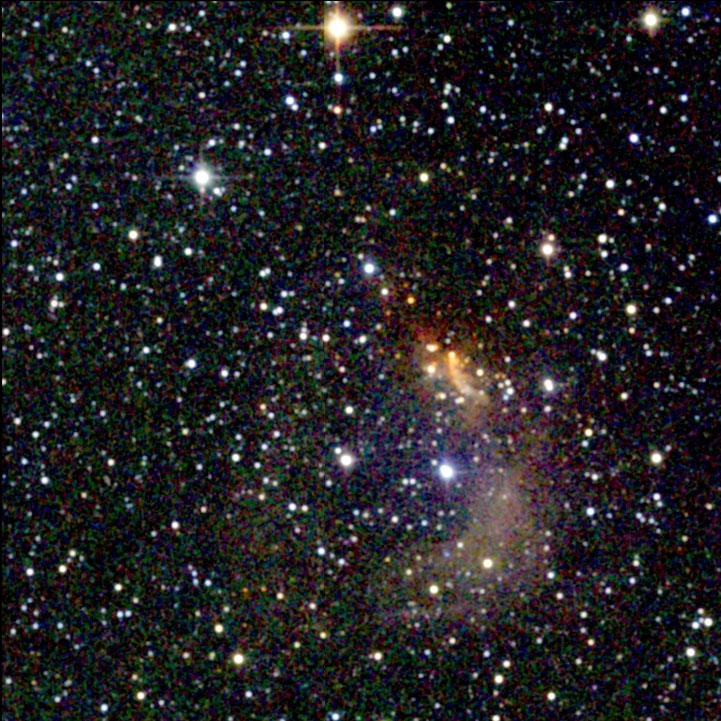 Atlas Image mosaic of NGC 2626, which, at a distance of about 1 kpc (3300 light years), is primarily reflecting the light from the bright blue (B1-type) 10th-magnitude star, CD -40°4432, which is embedded in it. (The star is seen toward the center of, and appears to be blended with another star in, the 2MASS image.) The infrared-bright jet-like nebula seen north of the blue star is the Herbig-Haro object HH 132, emanating from the bright infrared source IRAS 08337-4028. The bright star east and a bit north of CD -40°4432 is the pulsating variable star EM Velorum, a possible intermediate-mass Herbig Ae star. (The bright star at the top of the 2MASS image is IRAS 08338-4022.) Mueller & Graham (2000, PASP, 112, 1426), based on optical narrow-line imaging, have identified a number of H-bright sources in the field, which they associate with lower-mass, young K-type dwarfs, some of which may be T Tauri stars. IRAS 08337-4028 is most likely an embedded forming star, but the 2MASS image reveals a number of other young stellar objects as well, embedded in the dark cloud immediately north of NGC 2626 and elsewhere in the reflection nebula. (Field size 12.0´ × 12.0´)